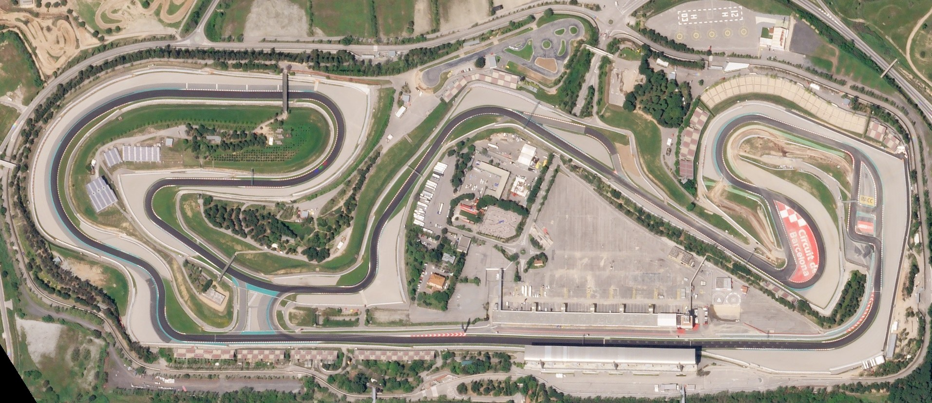 Circuit de Barcelona-Catalunya, a motorsport race track in Montmeló, Catalonia, Spain that is home to the Spanish Grand Prix. Image taken on April 19, 2018, by a Planet Labs SkySat satellite.